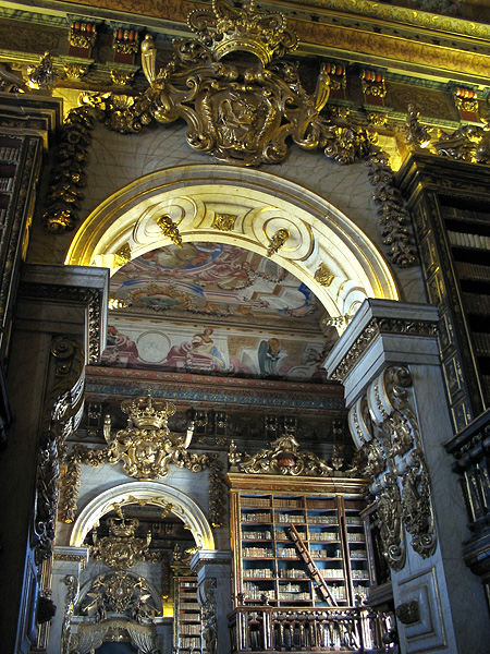 Library of Coimbra University, Portugal